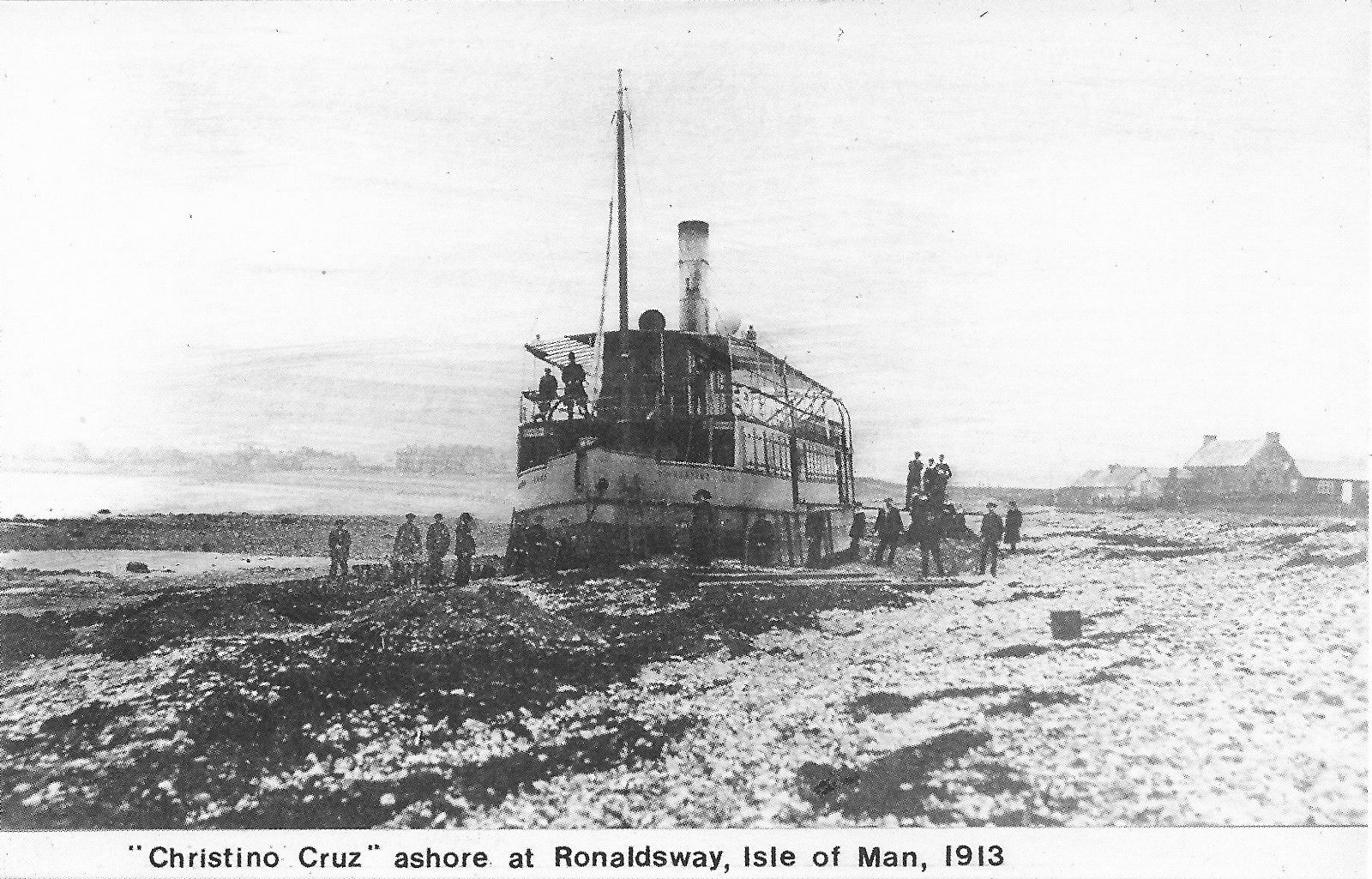 13th. February. 1913 - The riverboat, "Christino Cruz", on passage from Preston to South America, went ashore between Hango Hill and Derbyhaven. The 178 ton vessel was eventually refloated on the 21st. February.